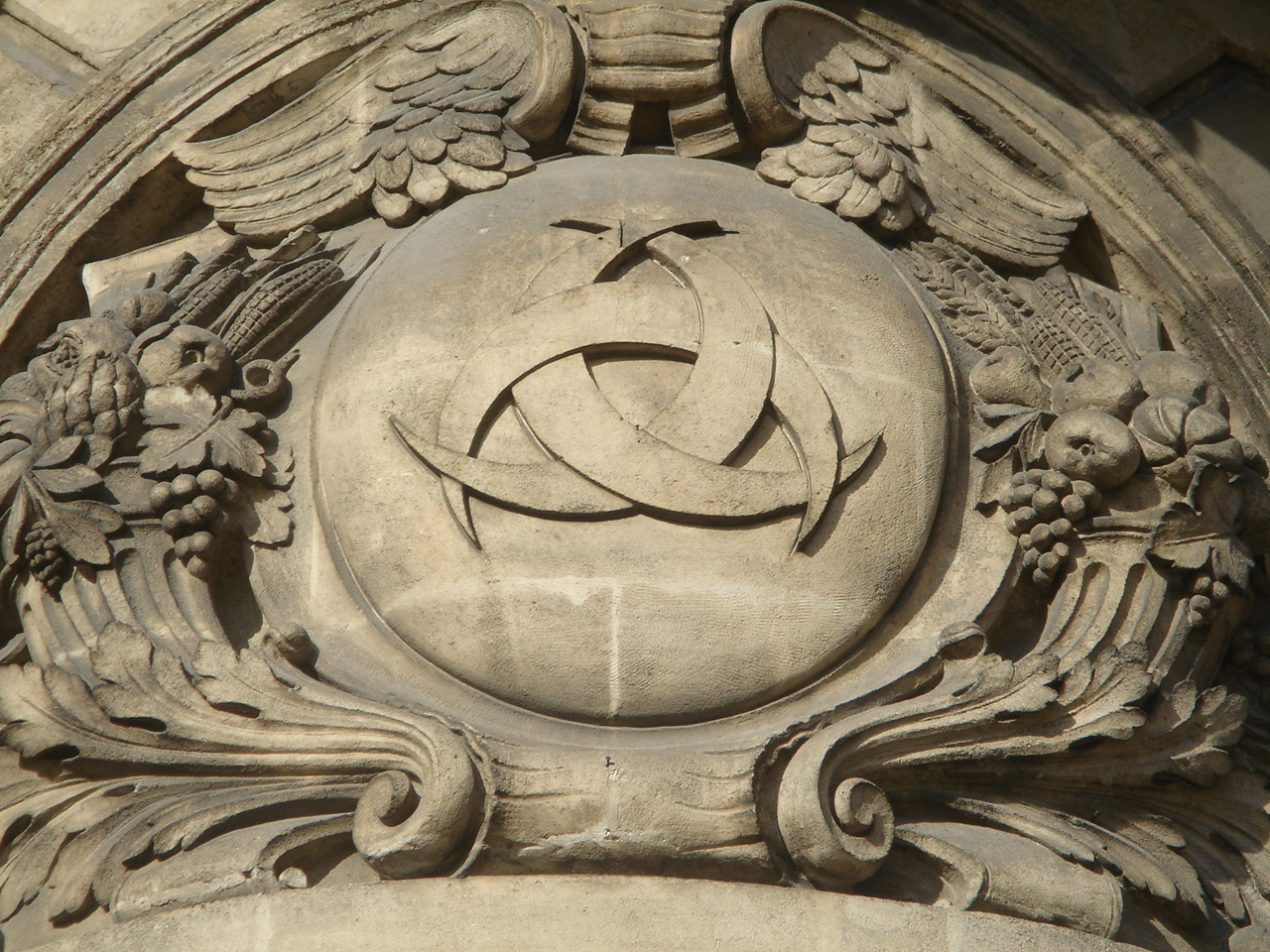 The three interlaced crescents, also known as the Small Coat of arms of Bordeaux, emblem of the city since the 18th century.